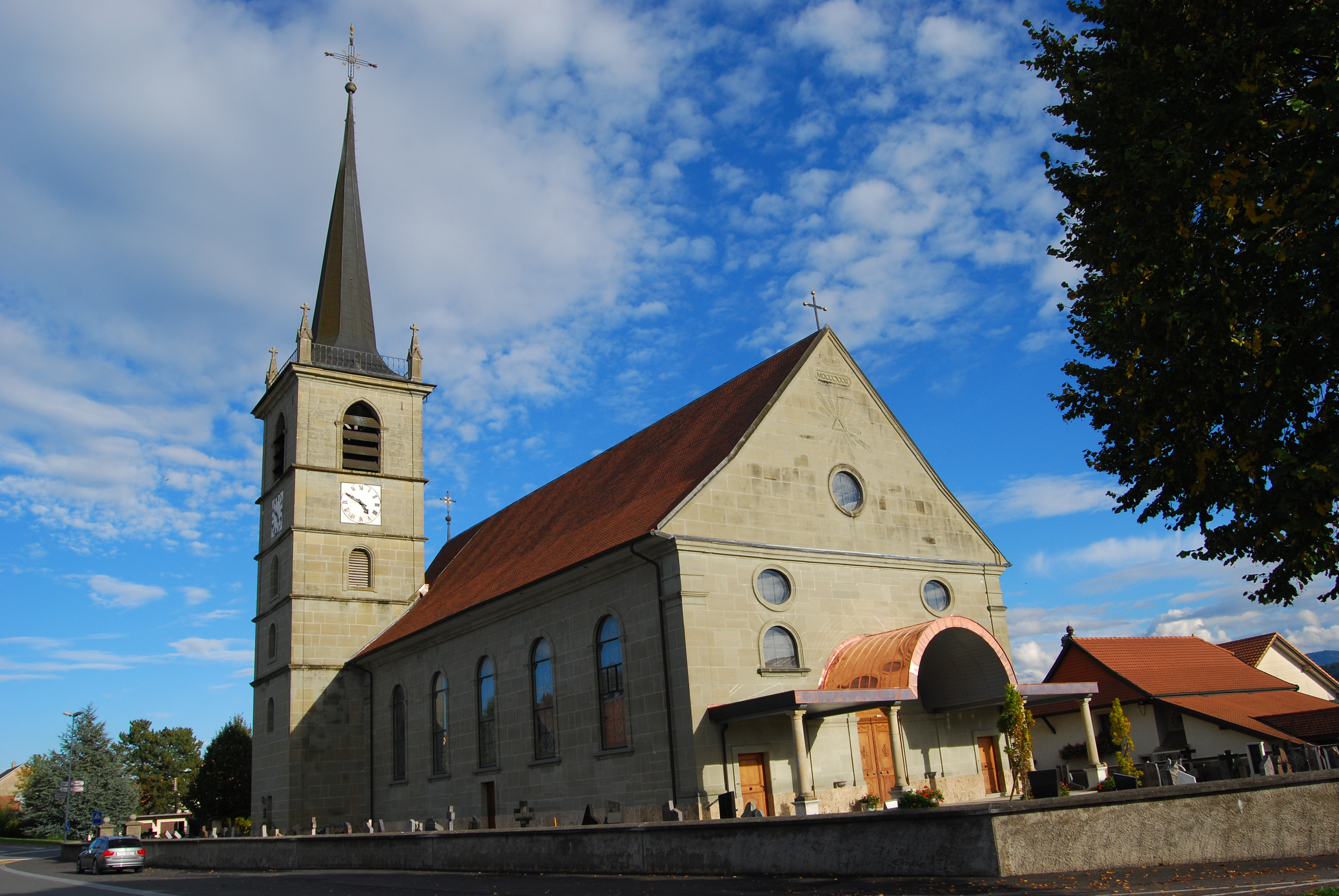 Catholic Church of Autigny, canton of Fribourg, Switzerland